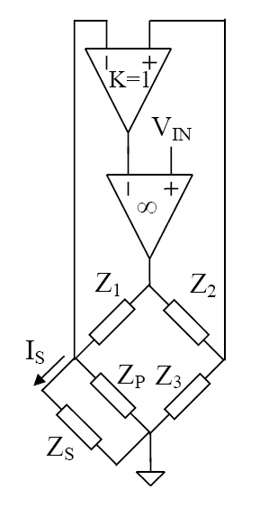 Fontana bridge schematic diagram